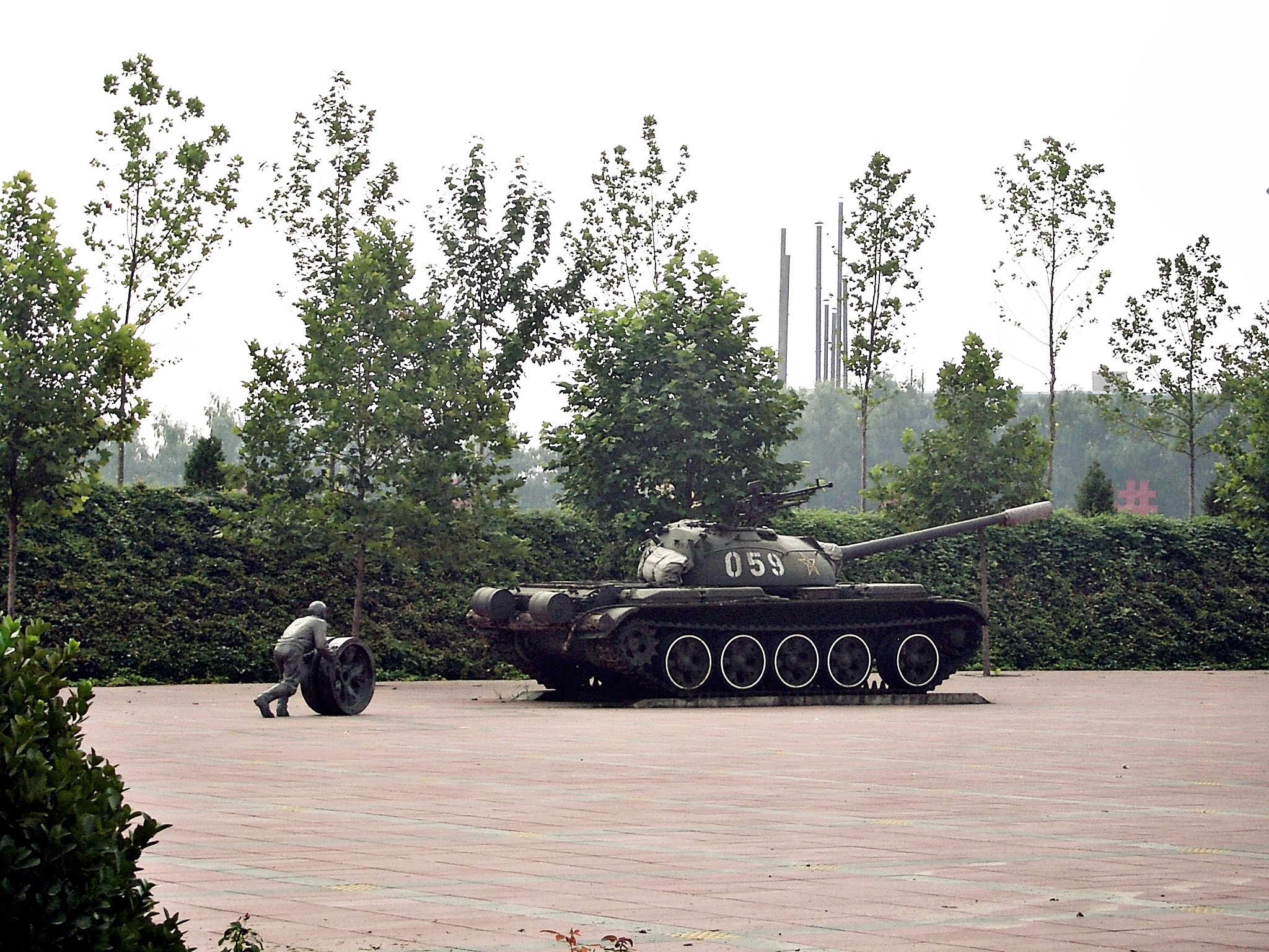 A monument with a tank in the Huaishuling neighborhood of Beijing (in Fengtai District of the city, a few km west of the Yongding River). The monument is actually within the grounds of a military unit, but is set up so that people could look at it from the sidewalk outside.